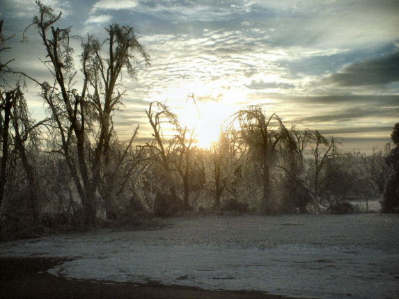 Joleene naylor, I took this picture January 15th, 2007 outside my home in Bolivar Missouri